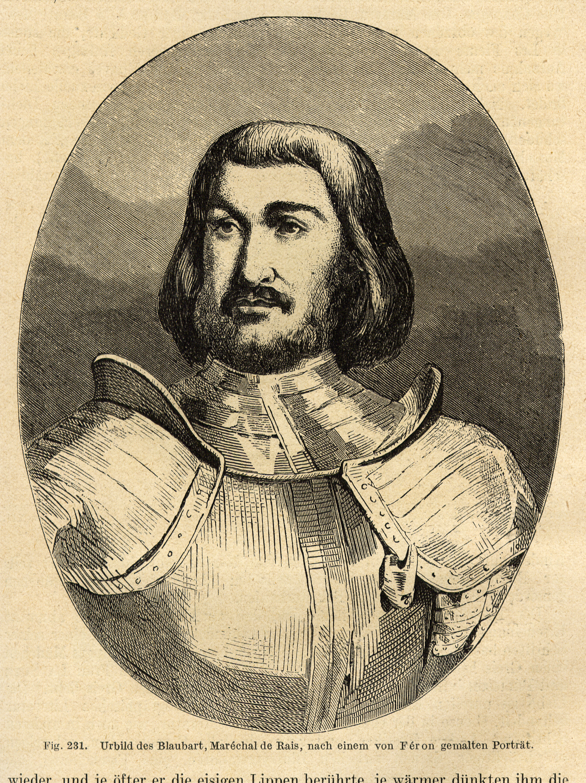 Gilles de Rais, fictional portrait after an 1835 painting by Éloi Firmin Féron, File:Gillesderais1835.jpg. From the book: Albert Moll, Handbuch der Sexualwissenschaften, Verlag Von F.C. Vogel, Leipzig 1921. Picture by Stefano Bolognini.